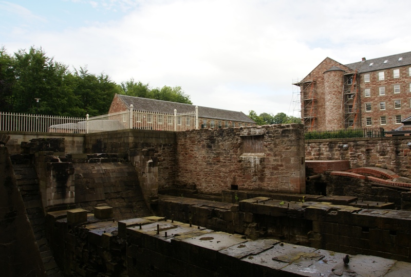 Stanley Mills, Stanley, Perth and Kinross, Scotland - Wheel Pits